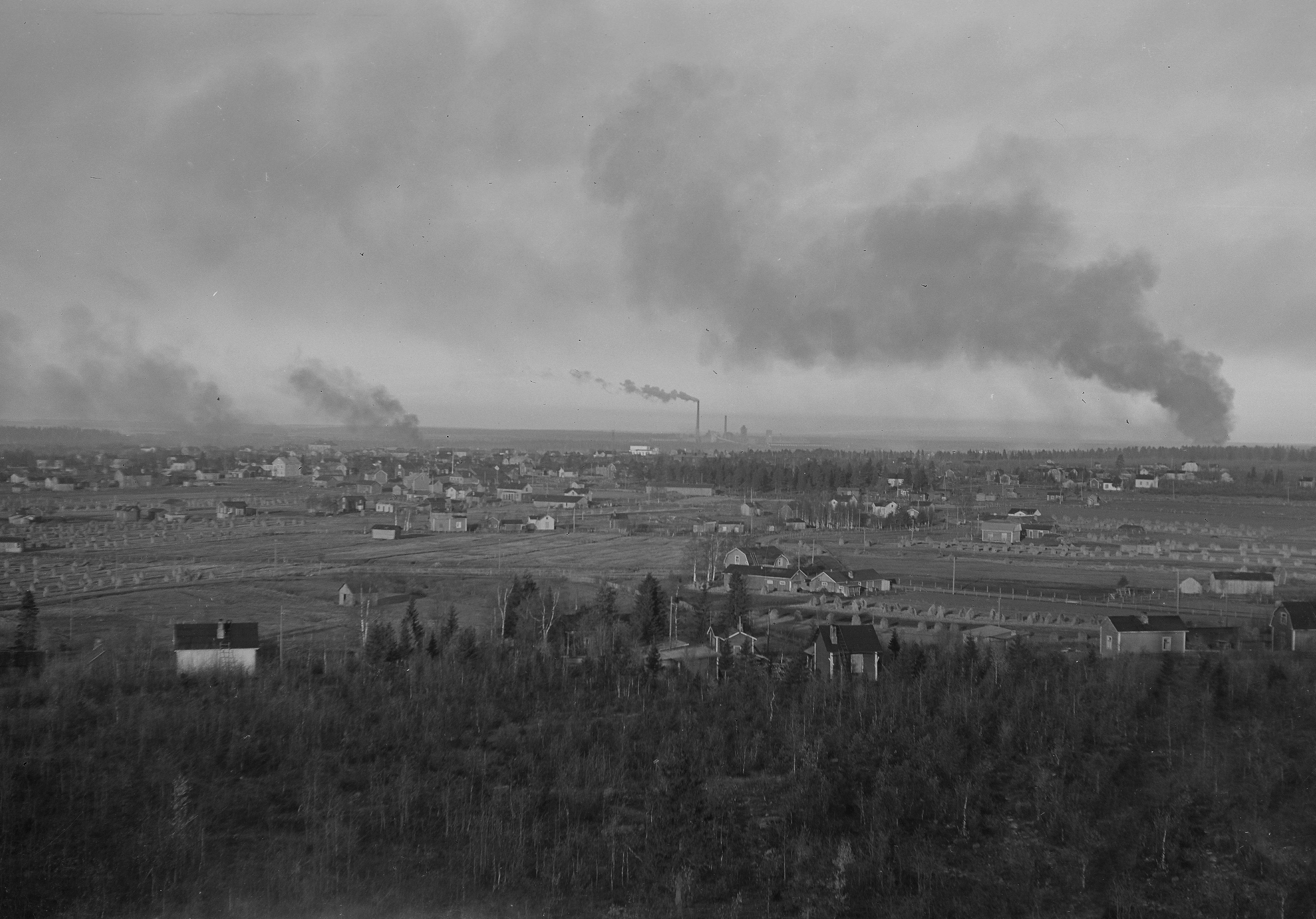 Kemissä palaa. Taustalla keskellä Pajusaaren massatehdas, jota saksalainen tykistö paraillaan tulittaa.